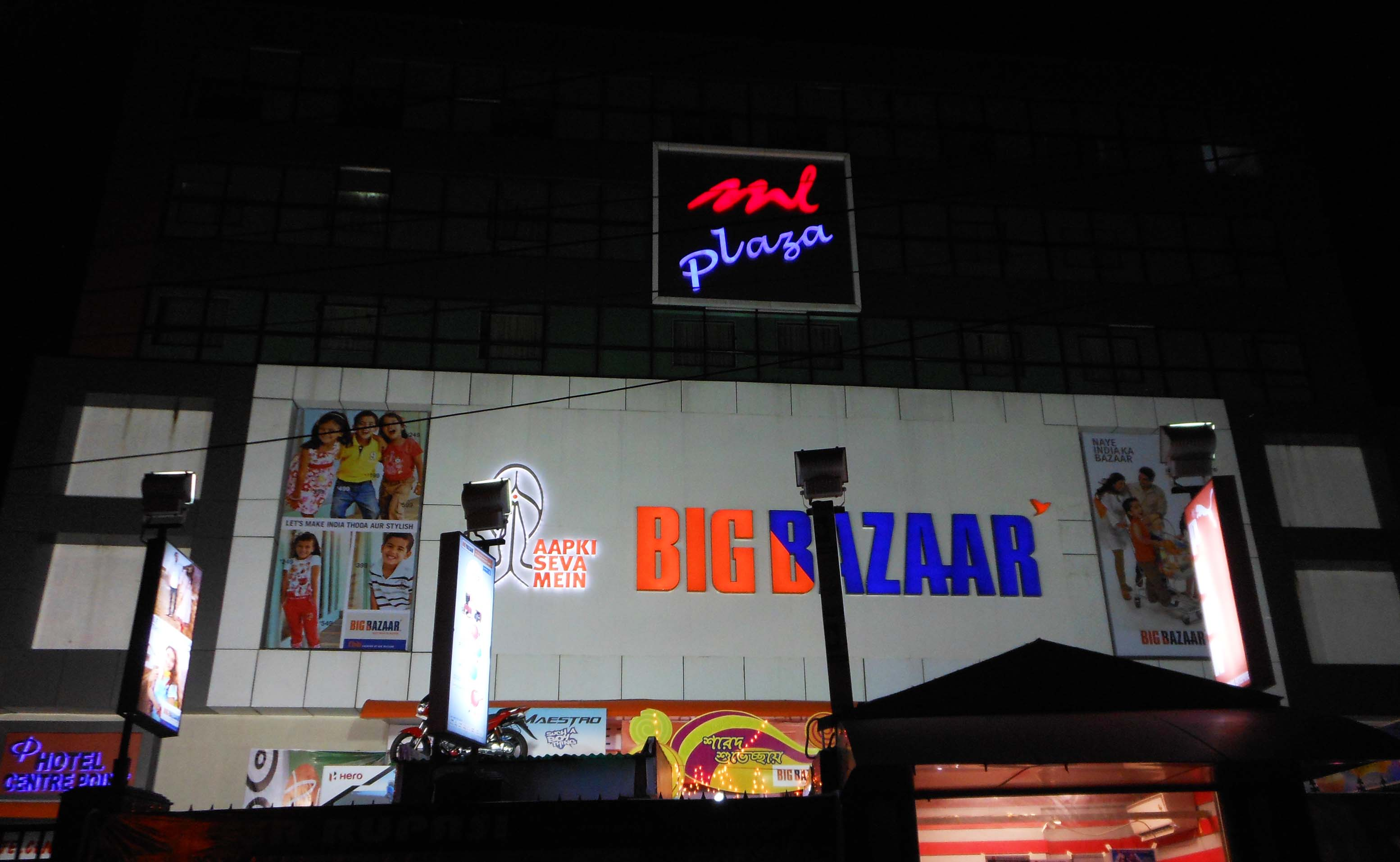 Big Bazaar along with ML Plaza shopping mall